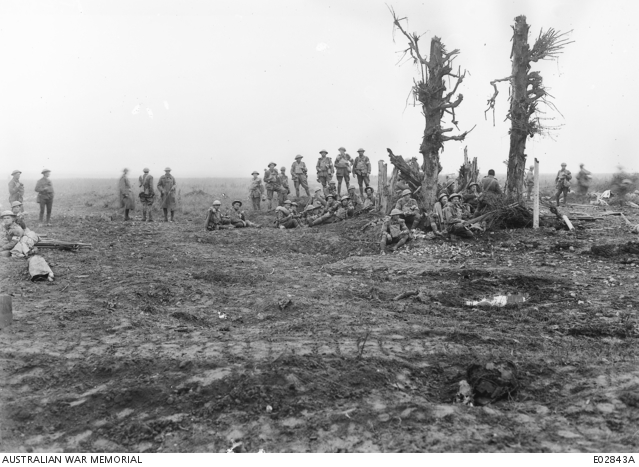 Stretcher bearers from the 8th Australian Field Ambulance rest during the Allied Hundred Days' Offensive.